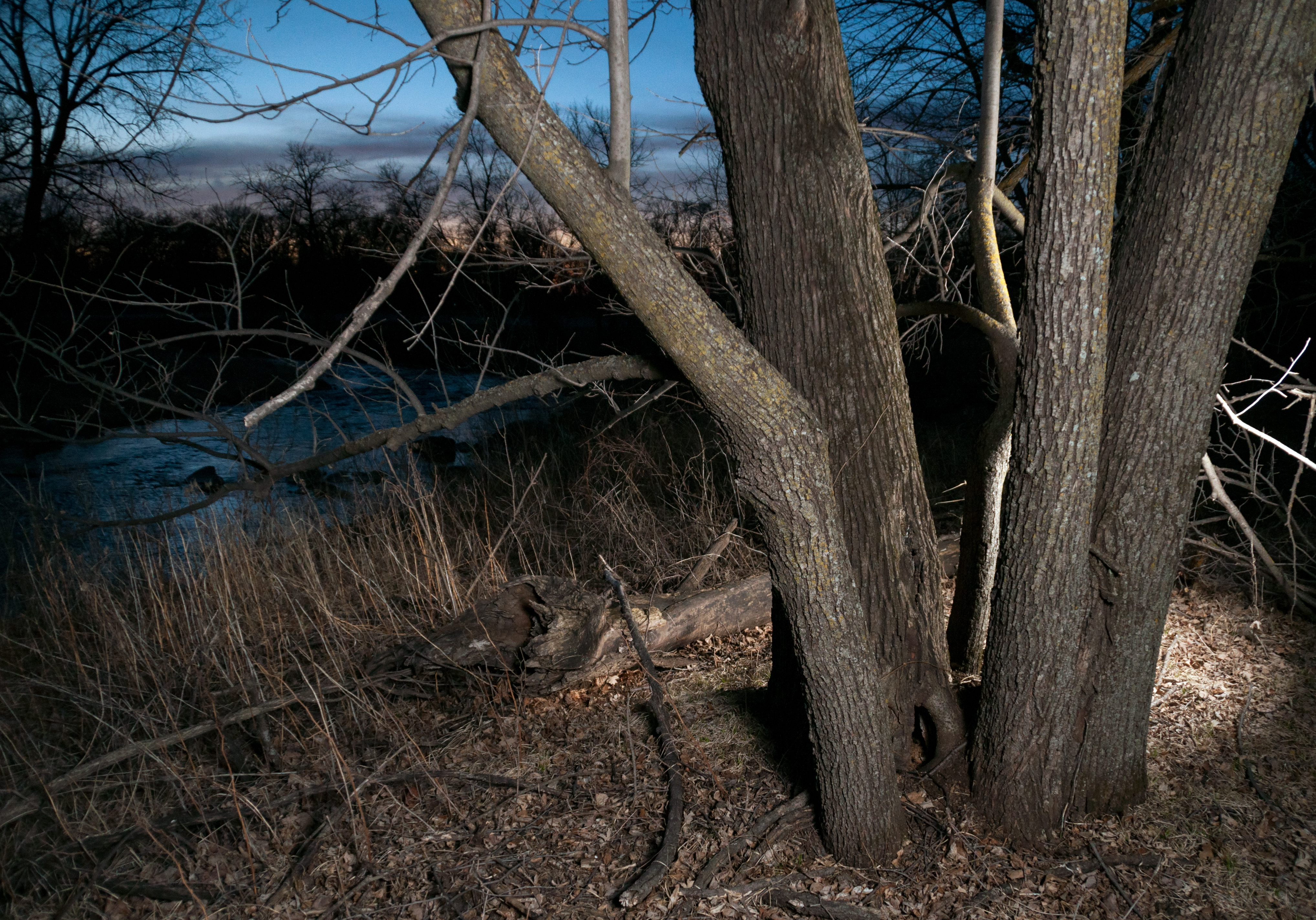 View of the Buffalo River from one of the fantastic walking/hiking trails located in Buffalo River State Park, located in Glyndon, MN.